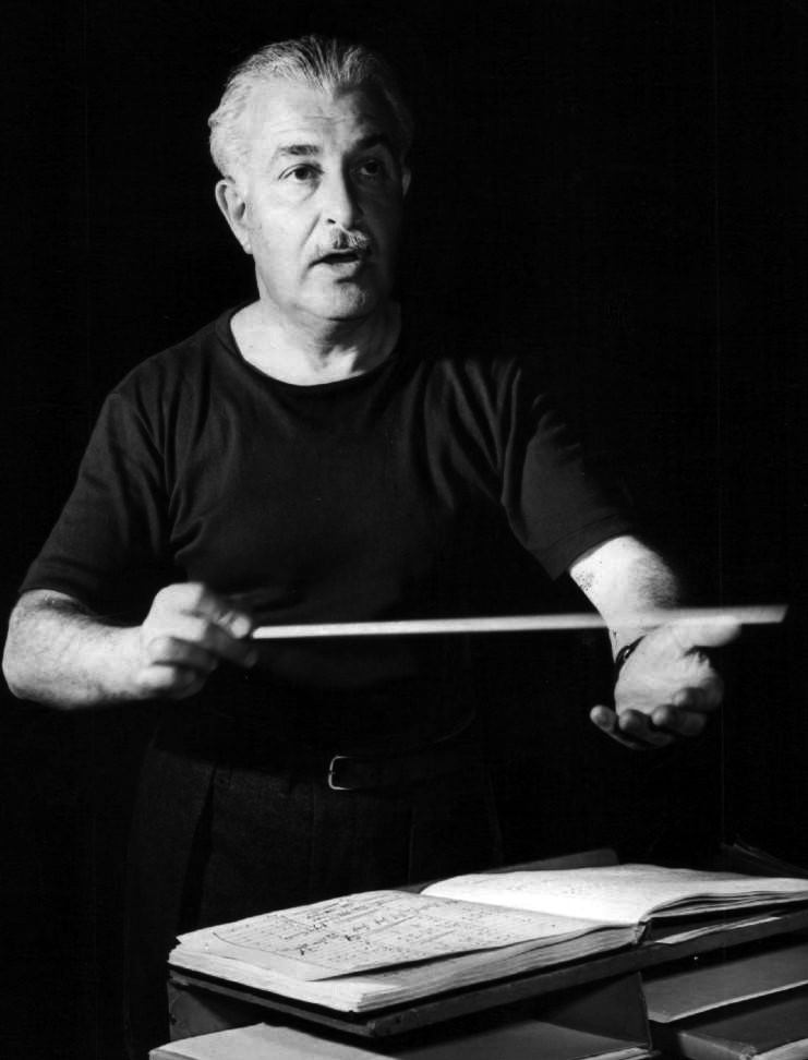 Photo of Arthur Fiedler conducting the Boston Pops from the radio program Boston Pops Orchestra.